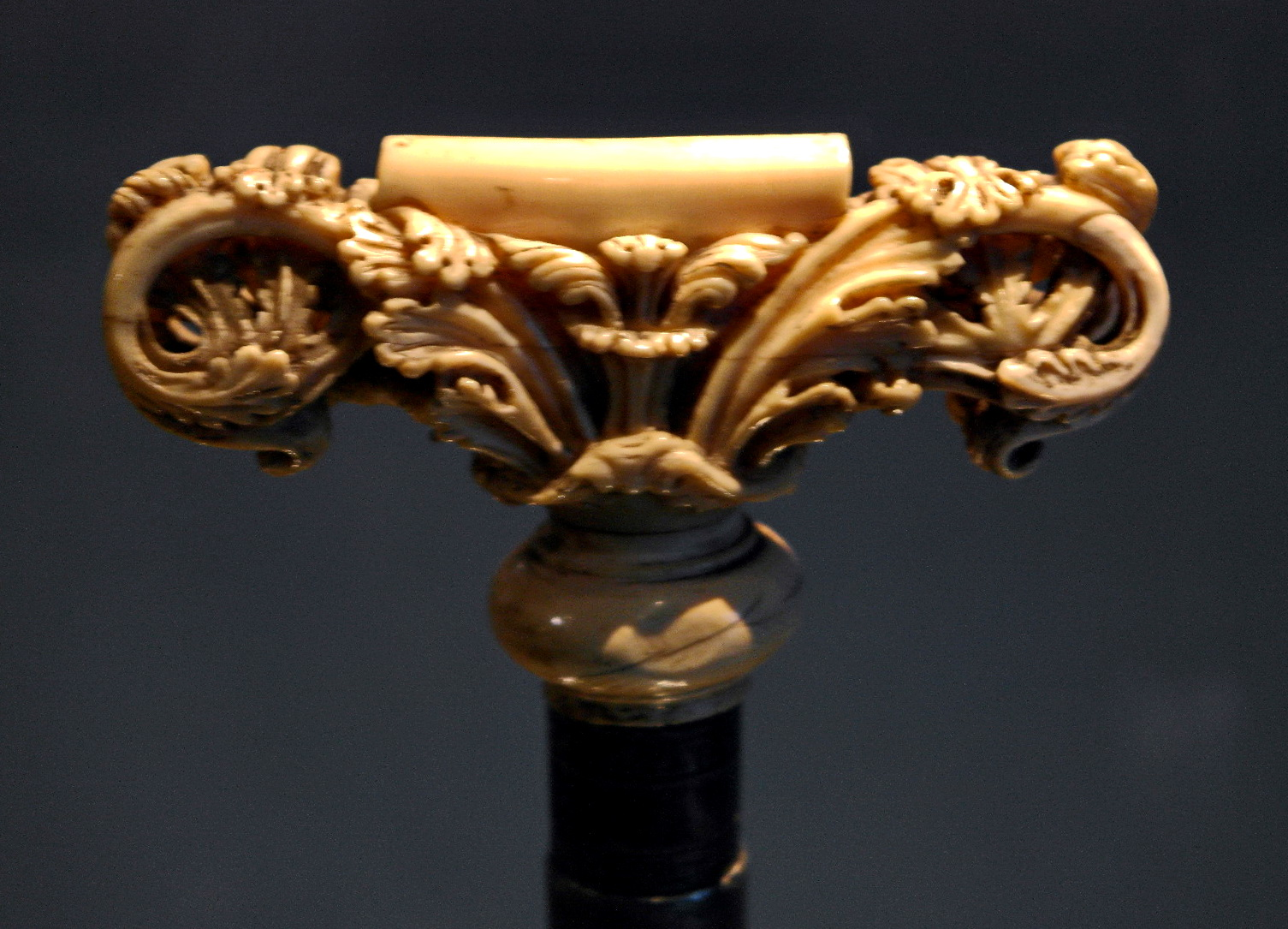 Maastricht, the Netherlands,Treasury of Sint-Servaasbasiliek. The so-called pilgrim's staff of Saint Servatius, part of the Servatiana collection.